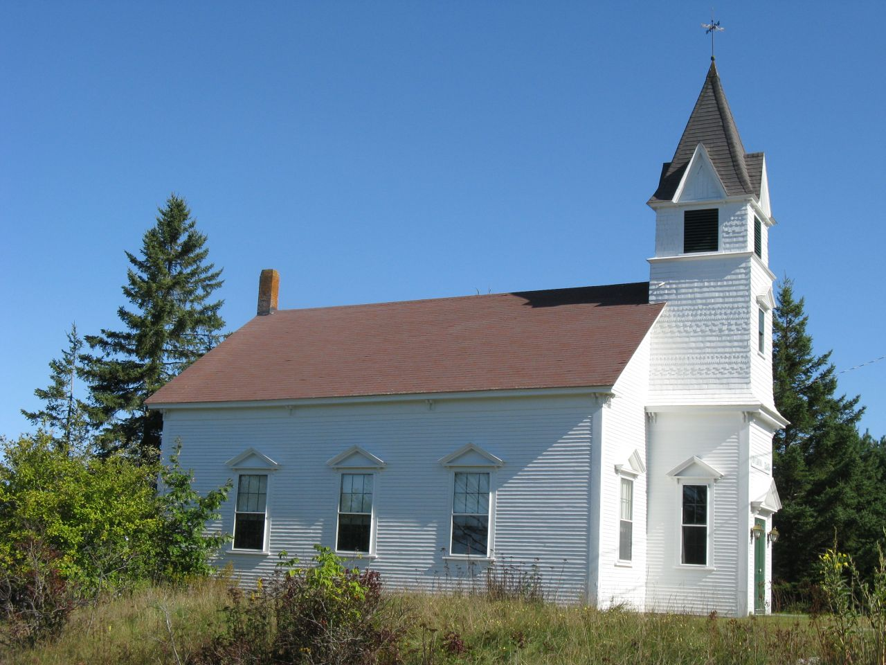 This New England chapel, completed in 1902 for the use of all denominations, is on the road between Sedgwick & Brooklin.